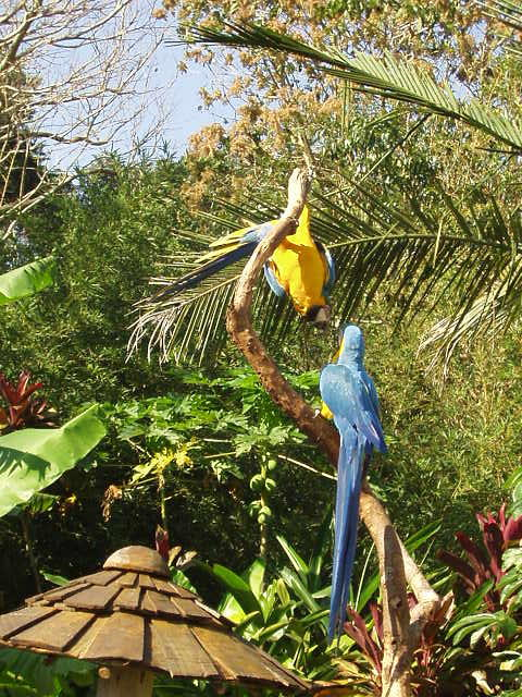 Picture taken near Iguazu in an Argentinian bird park.